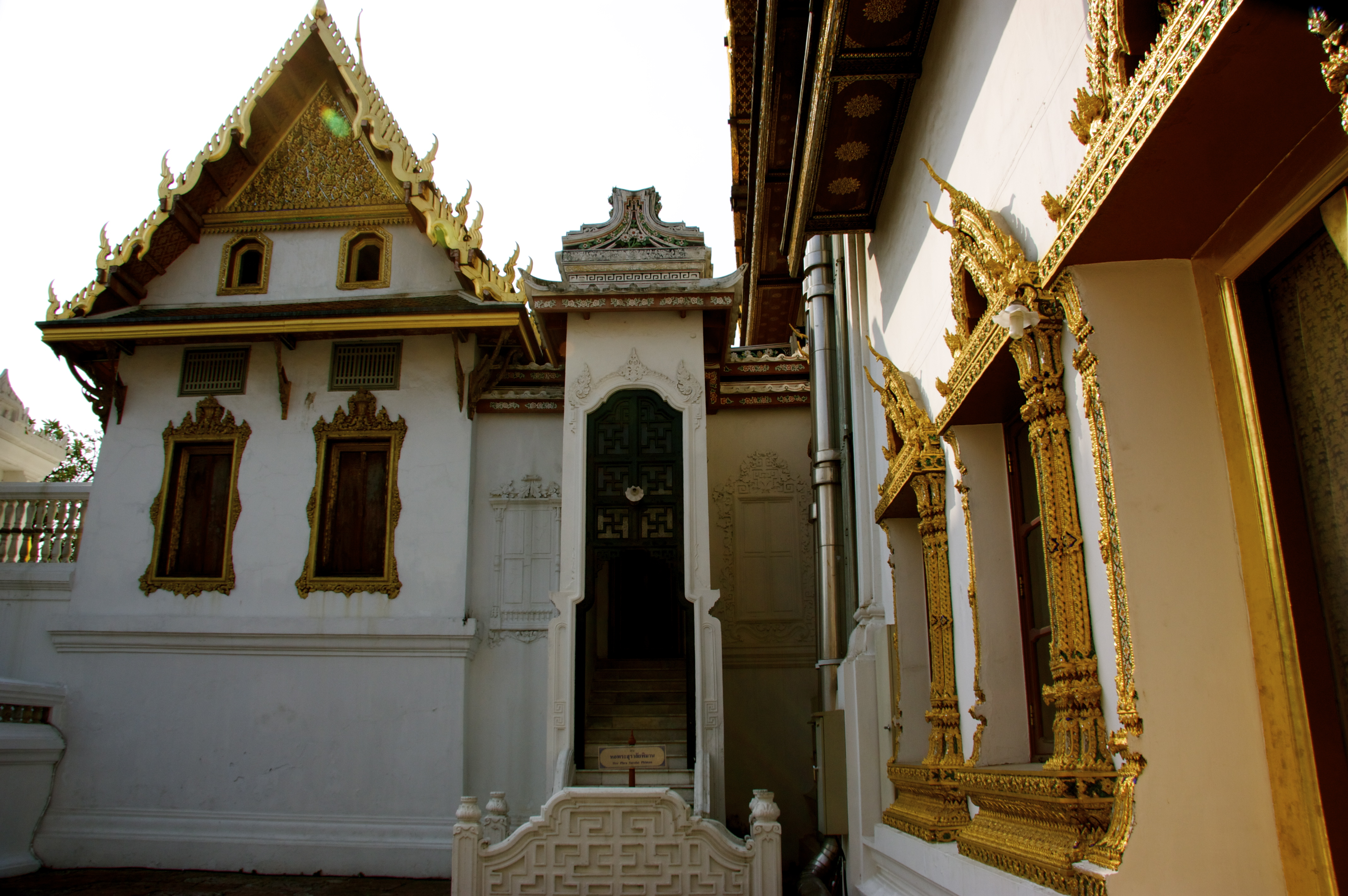 Ho Sulalai Phiman, Maha Montien Group, Grand Palace, Bangkok.